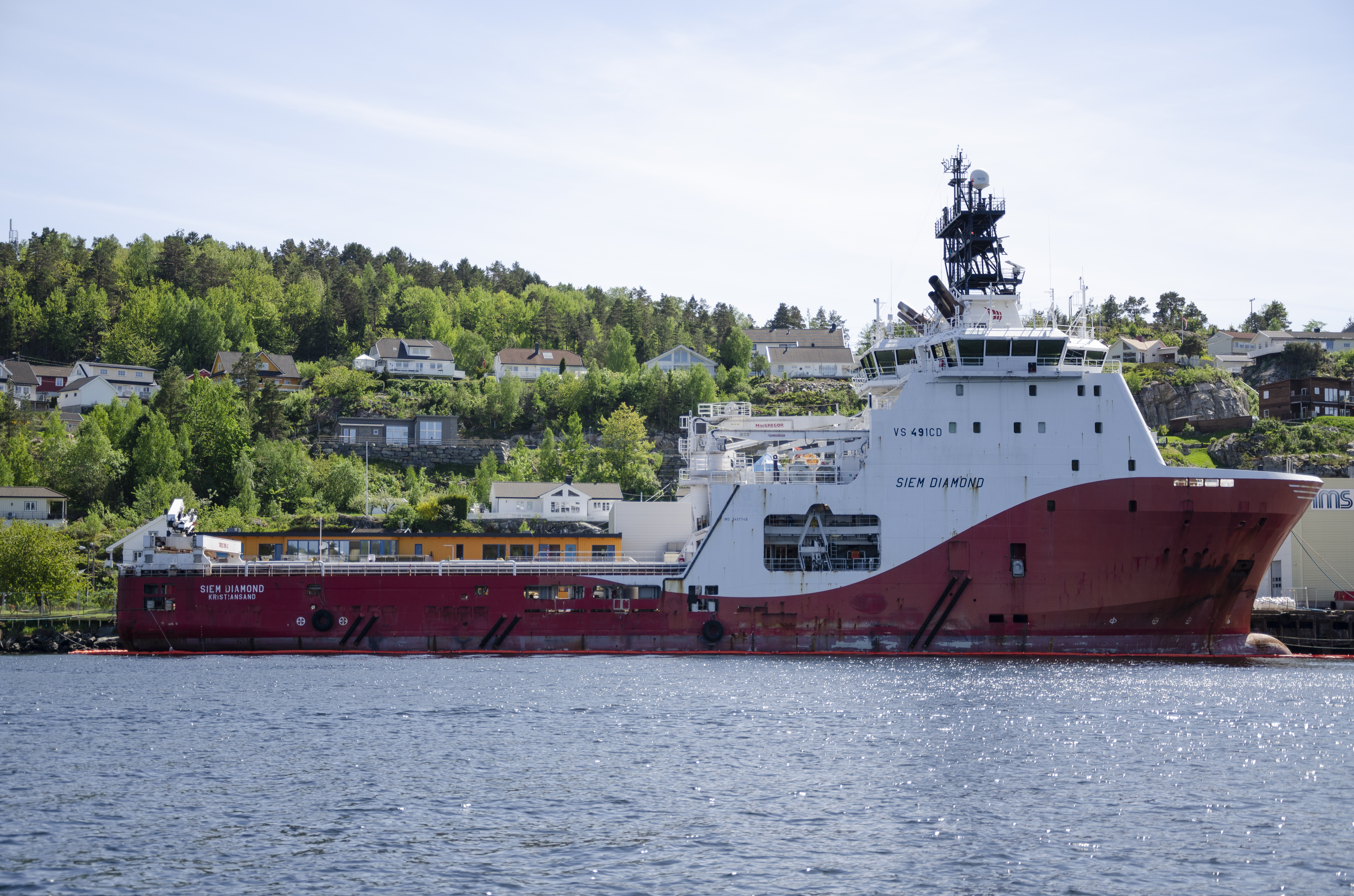 Offshore supply vessel "Siem Diamond" moored in Risør, Norway.